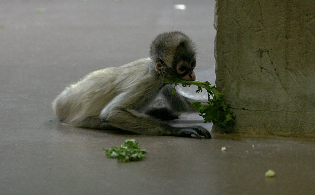 SPider Monkey at the Milwaukee County Zoological Gardens in Milwaukee, Wisconsin